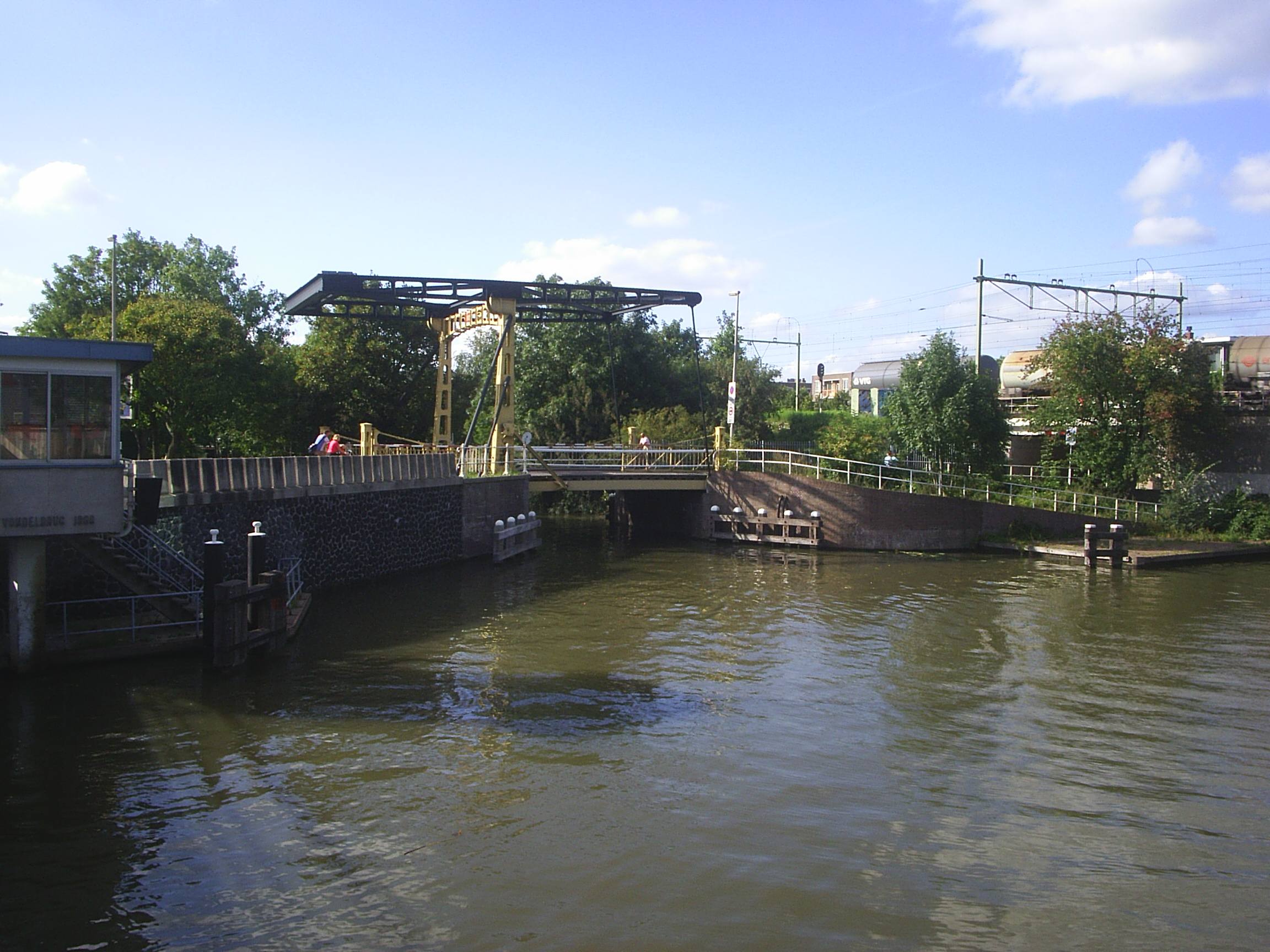 Jeremiebrug, Utrecht (The Netherlands), gemeentelijk monument, location of former railway station.